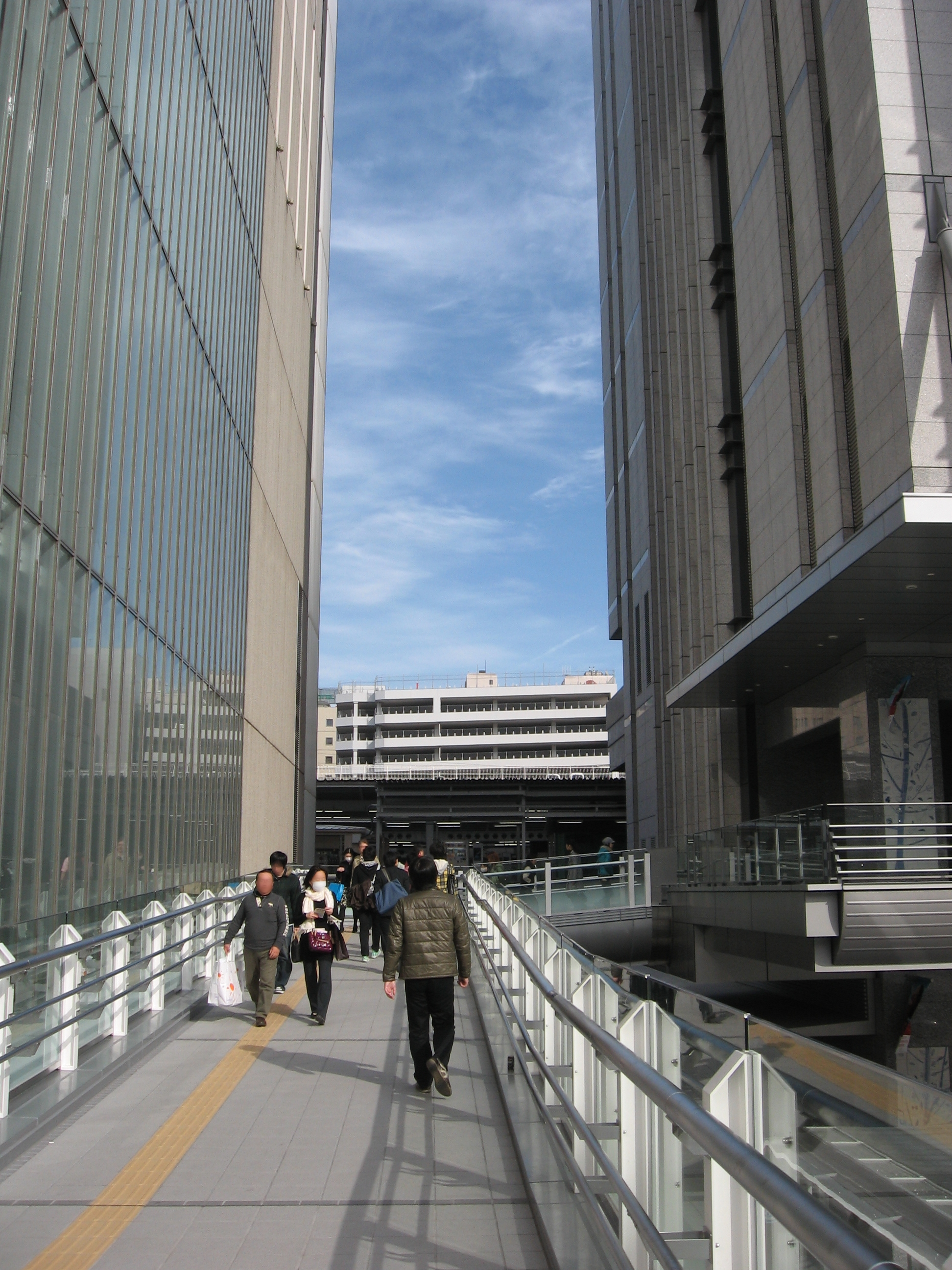 Pedestrian deck walk between JR Hakata City and Hakata Bus Terminal, Fukuoka, Japan.